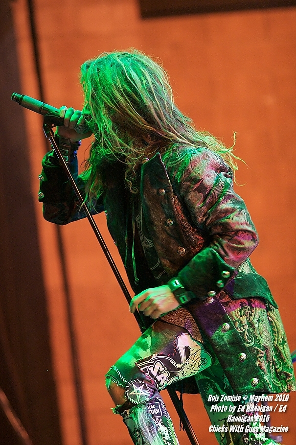 Rob Zombie live